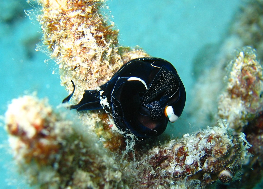 Inornate Chelidonura (Chelidonura inornata) mating. Tracey's Wonderland, Ribbon Reefs, Great Barrier Reef